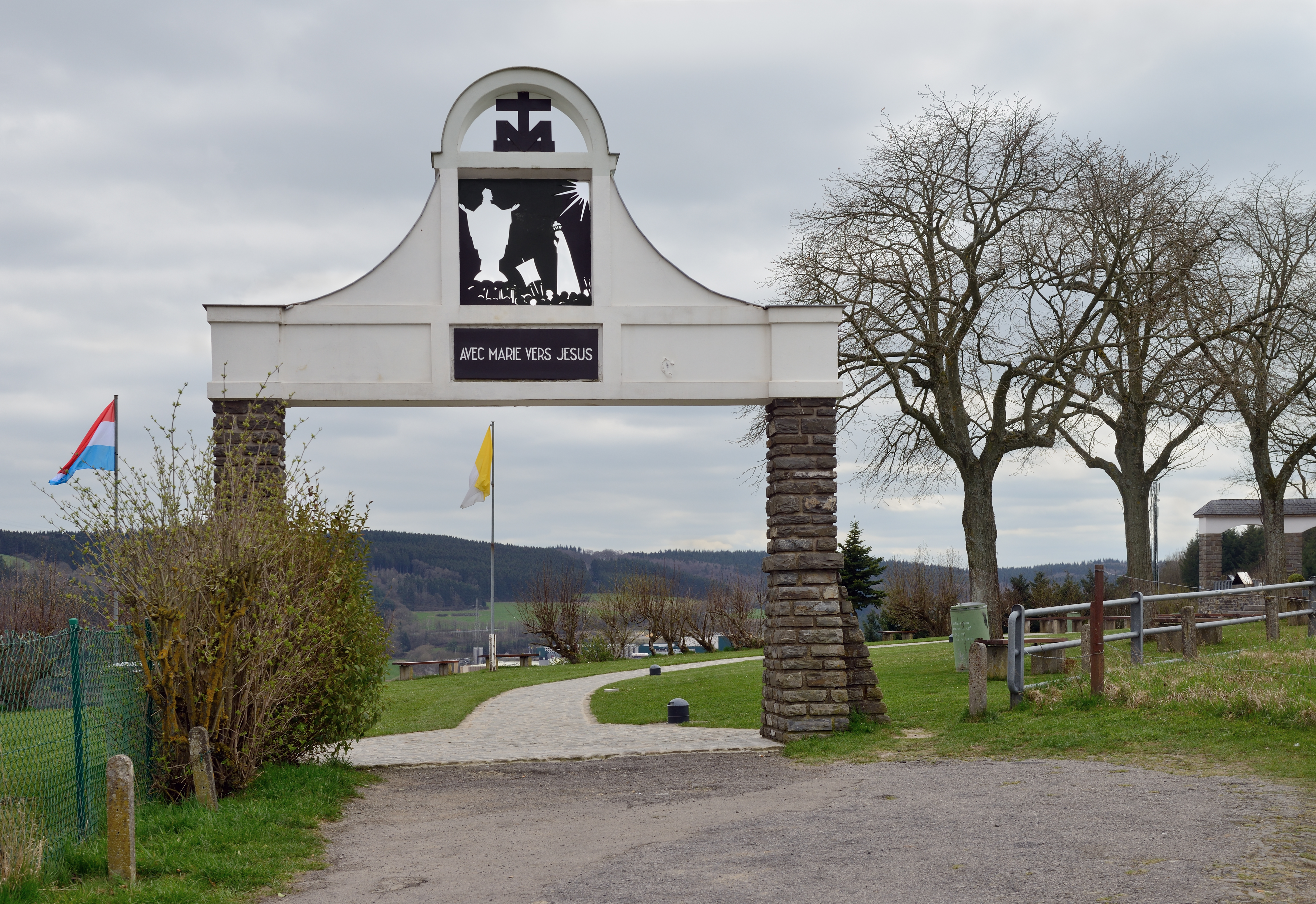 Entrance to the Our Lady of Fátima-monument site at Wiltz, Luxembourg.